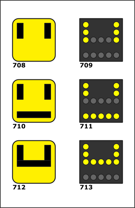 Diagrams of railway signals in Switzerland